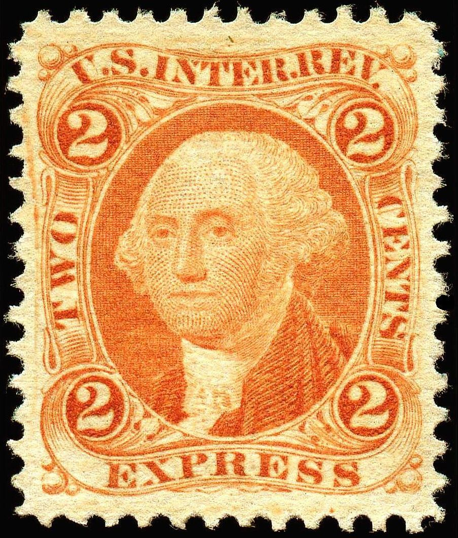 Image of U.S. Revenue stamp, Washington, 2c, (Scotts# R10d)